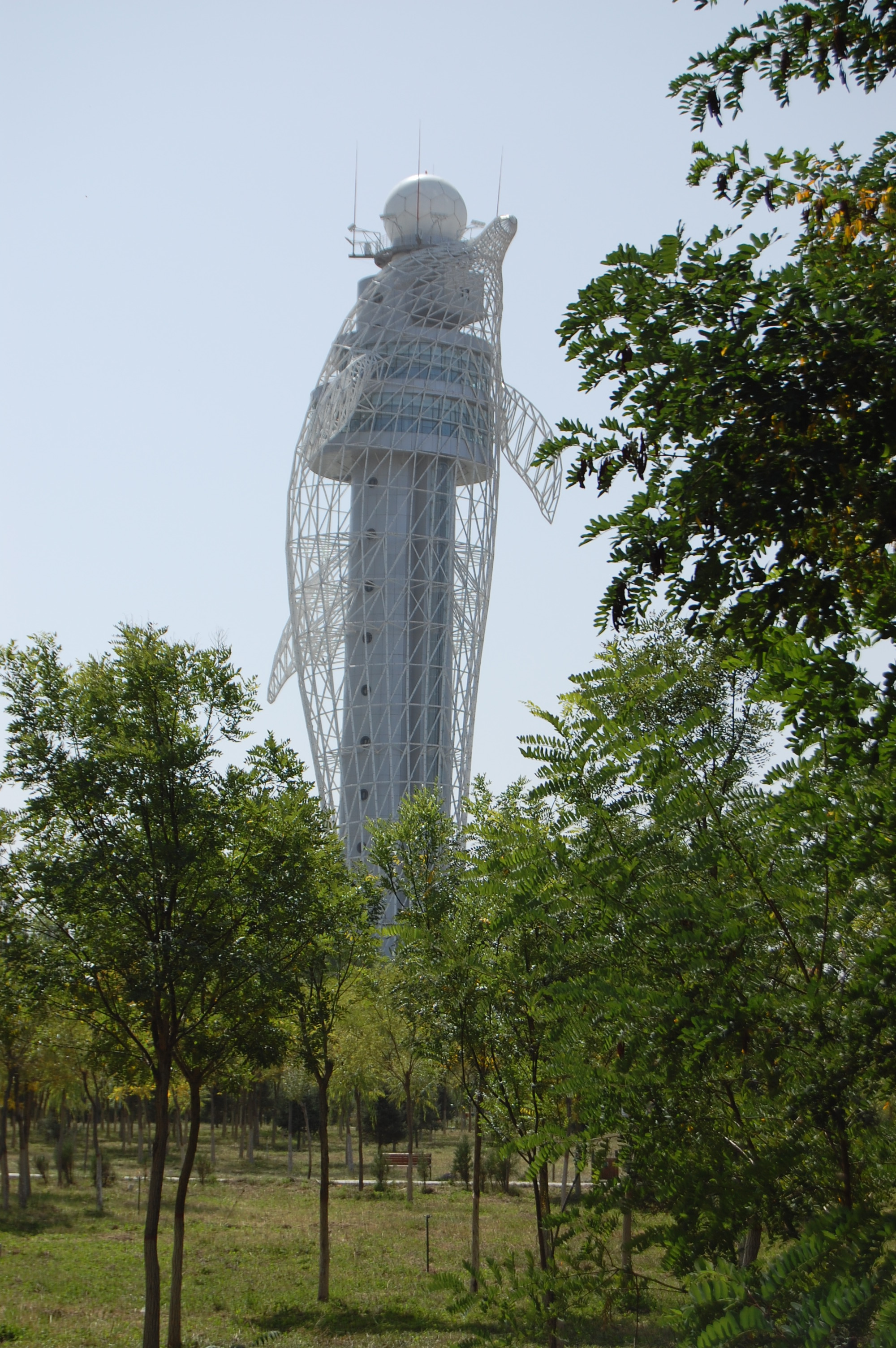 Dolphin-Tower: Governmental Weather Monitoring Station in Jiayuguan, Gansu Province, China